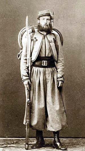 c. 1845 carte de postale. Lombardi Historical Collection.